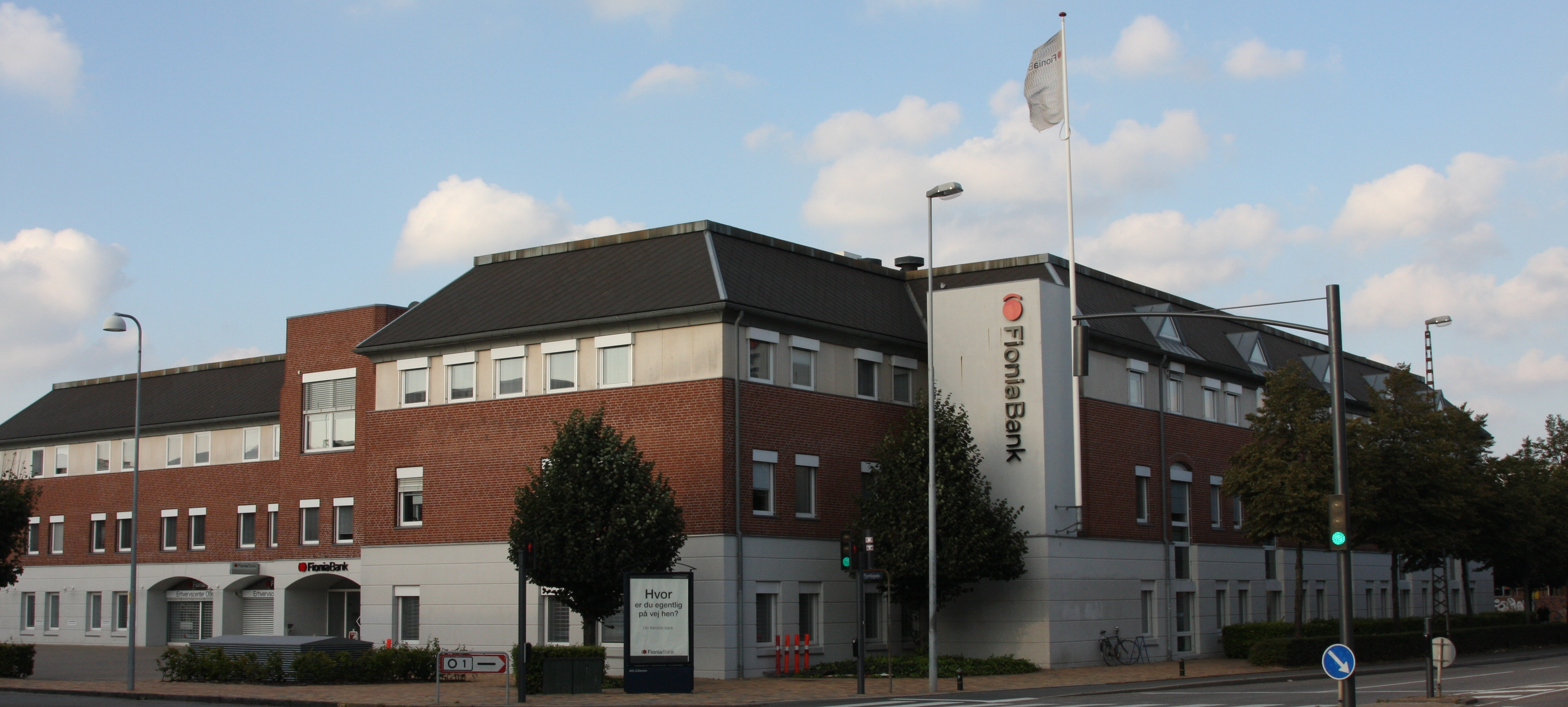 The main offices of Fionia Bank, located in Odense, Denmark.